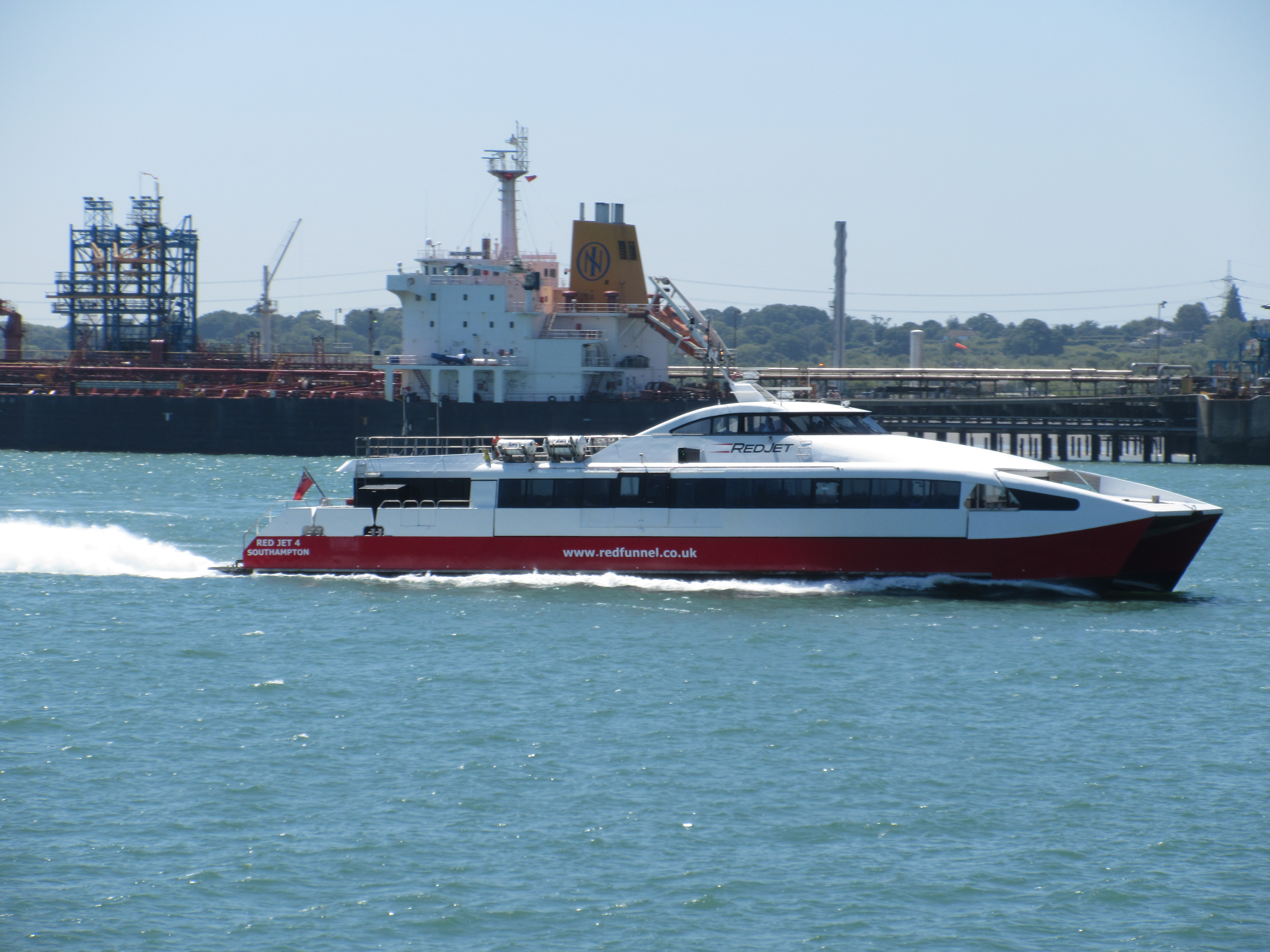 Red Funnel Red Jet 4 passing Fawley oil refinery in the Solent